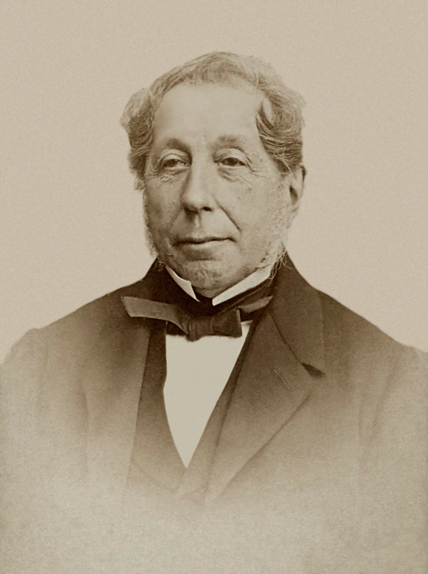 Charles de Rémusat (1797 - 1875), french politician, writer and historian.